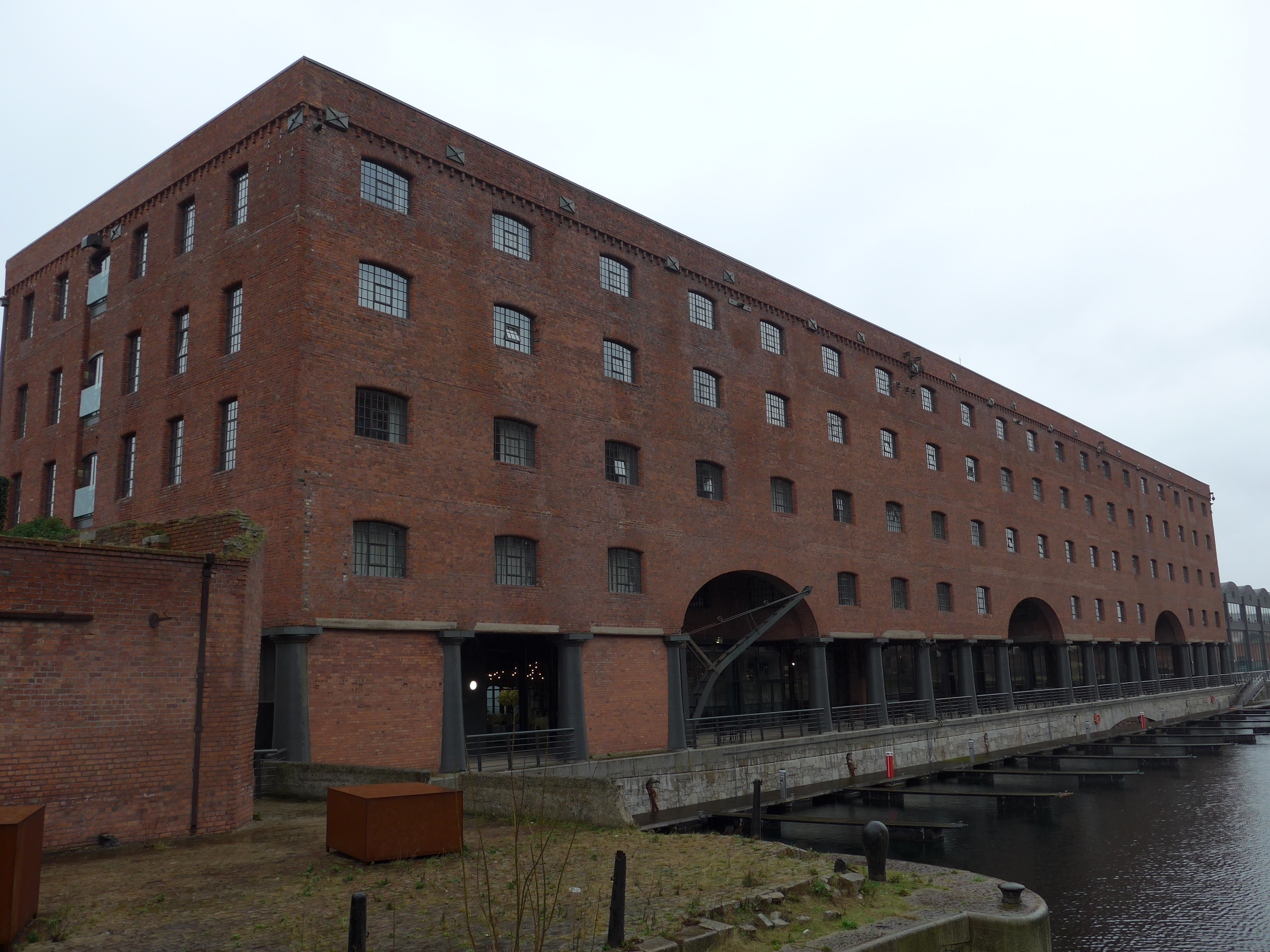 Grade: II* listed, List Entry Number: 1359841.